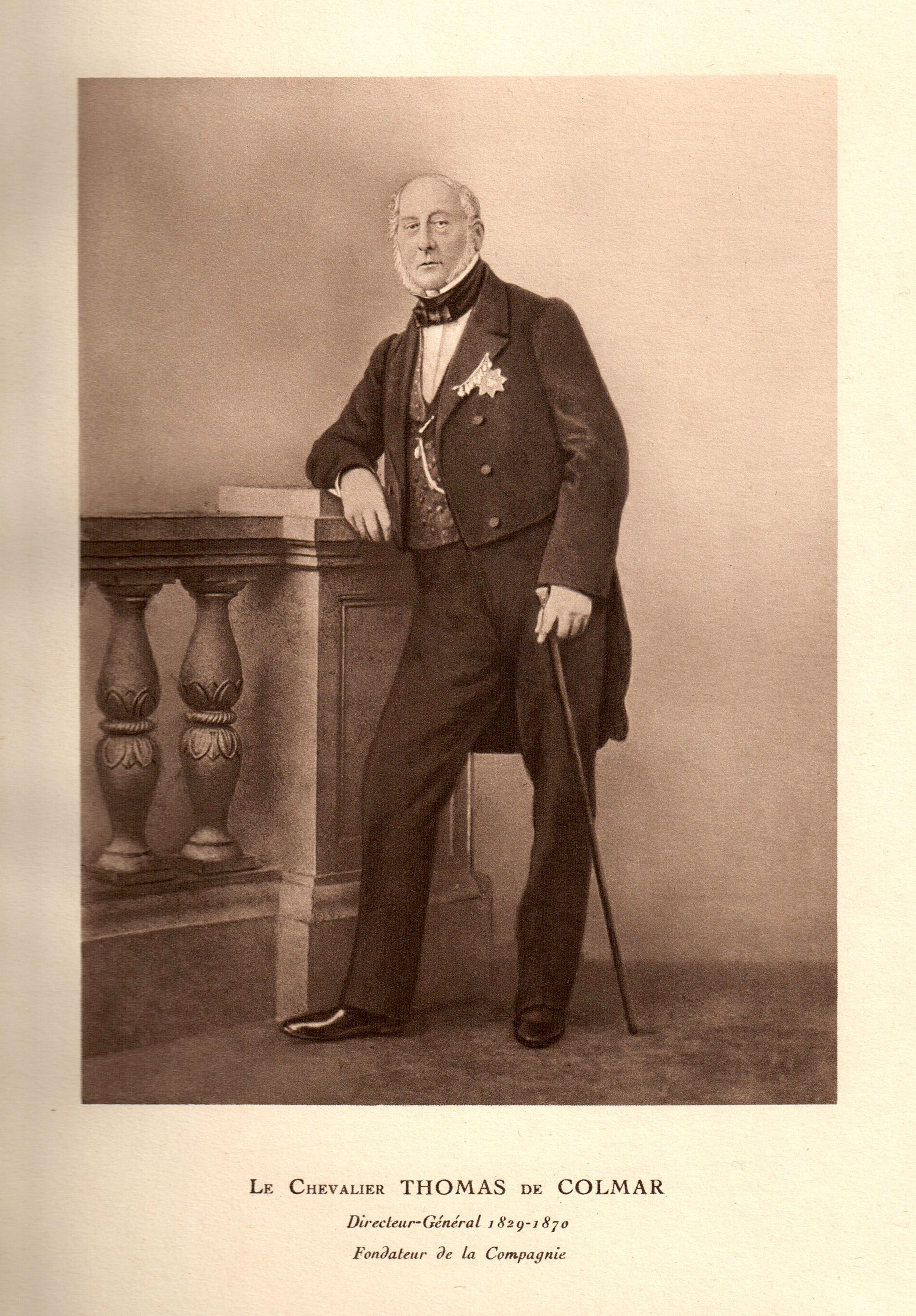 Drawing of Thomas de Colmar scanned from the 100th anniversary book of the company "Le Soleil" published in 1929